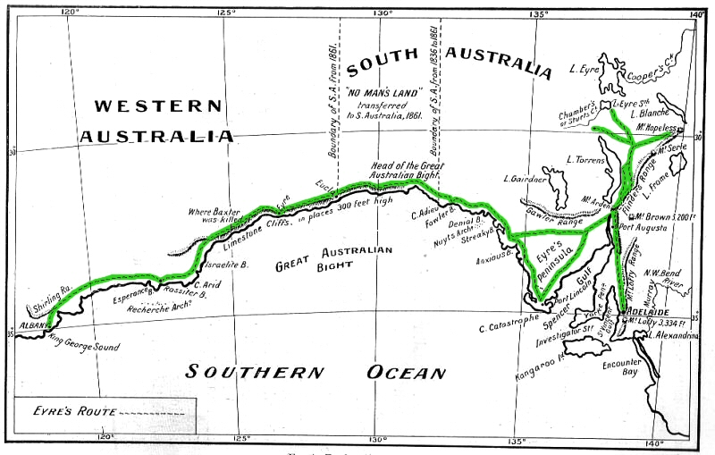 Map of the routes explored by John Eyre in South Australia and Western Australia in 1840 and 1841 (highlighted in green).